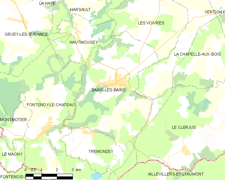 Map of French municipality Bains-les-Bains